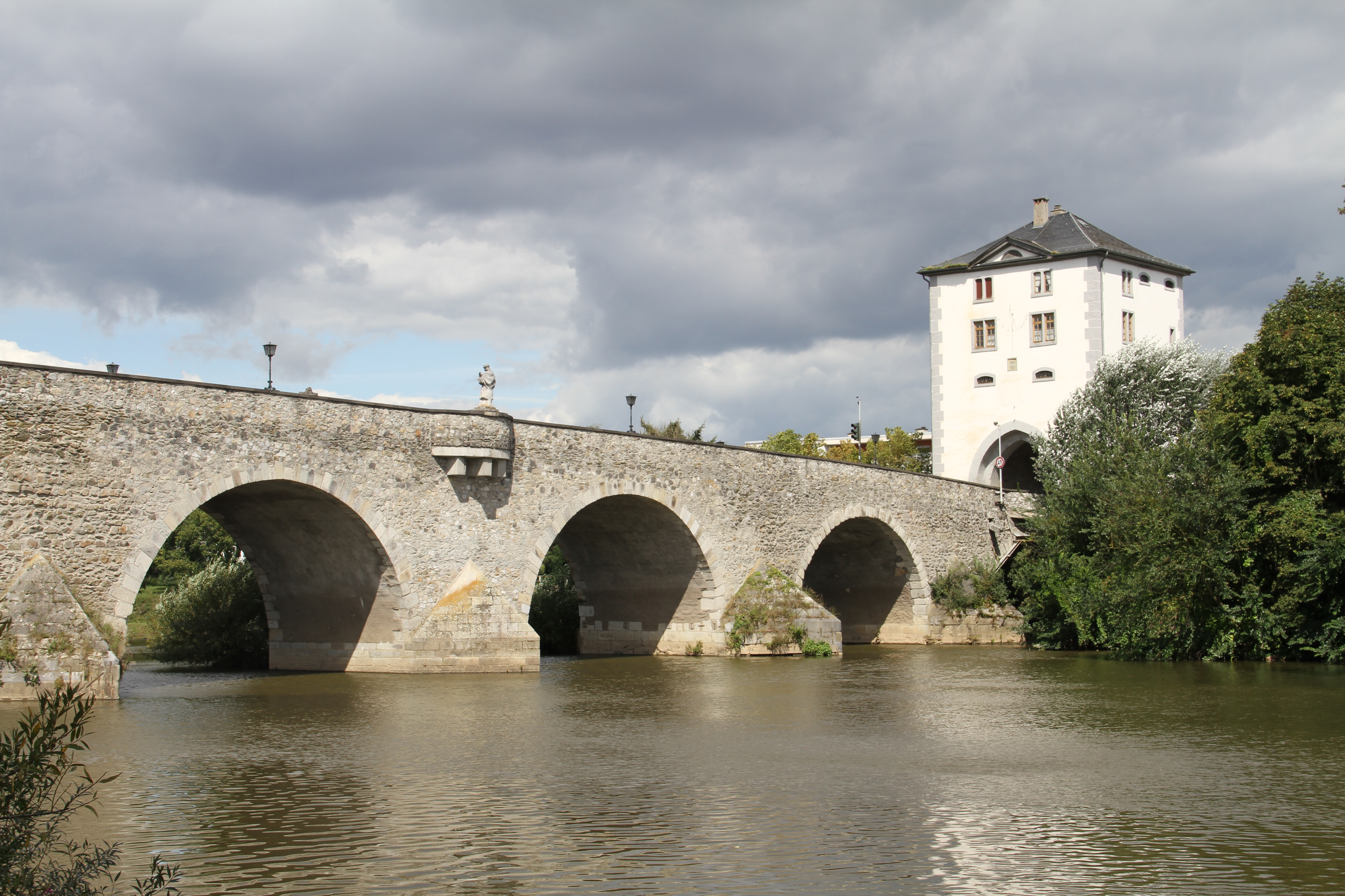 Alte Lahnbrücke in Limburg an der Lahn, Germany